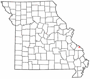 Modified from a map on Wikipedia.